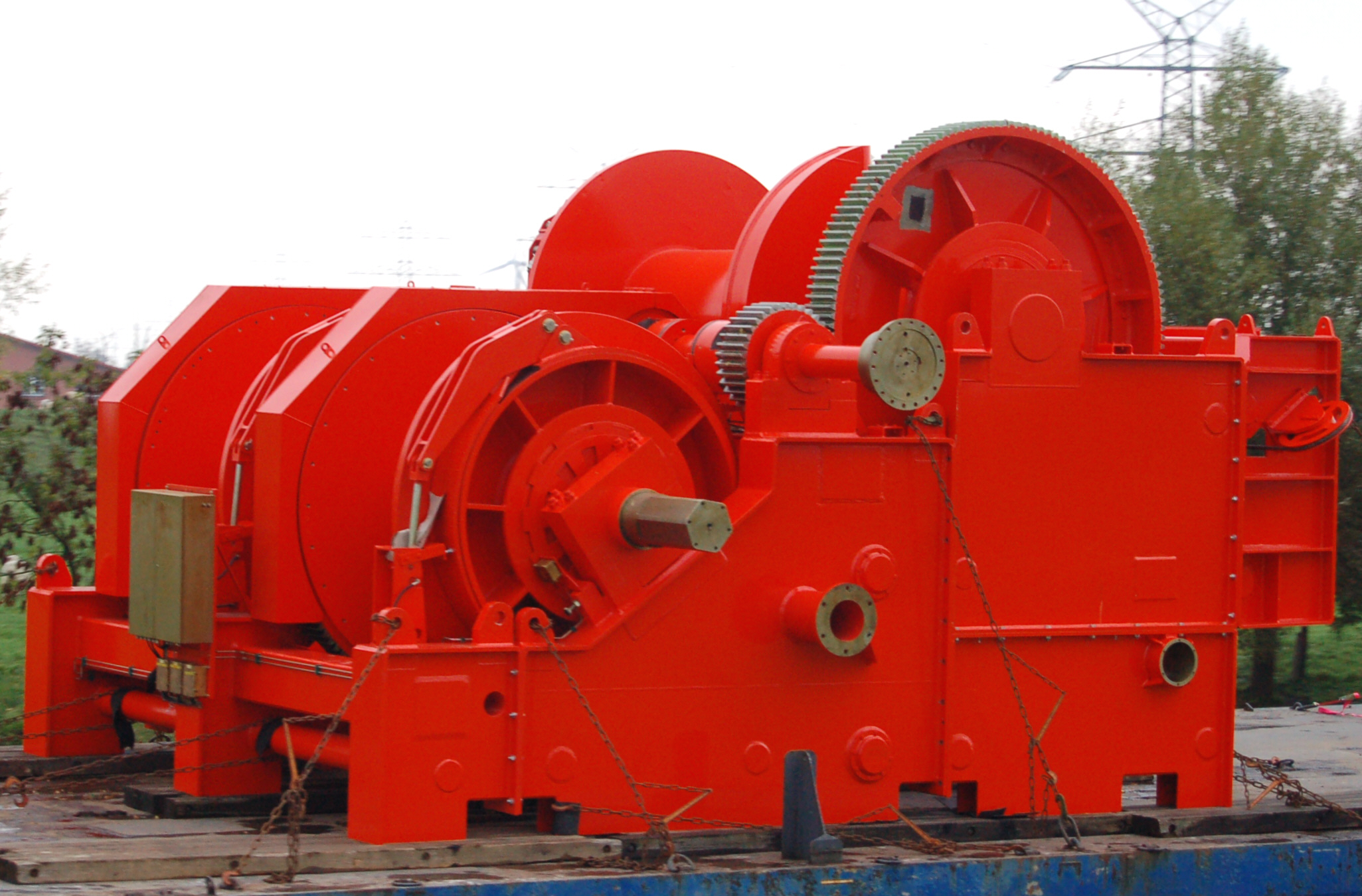 The largest Anchor windlass of the World (262 dead weight tons)